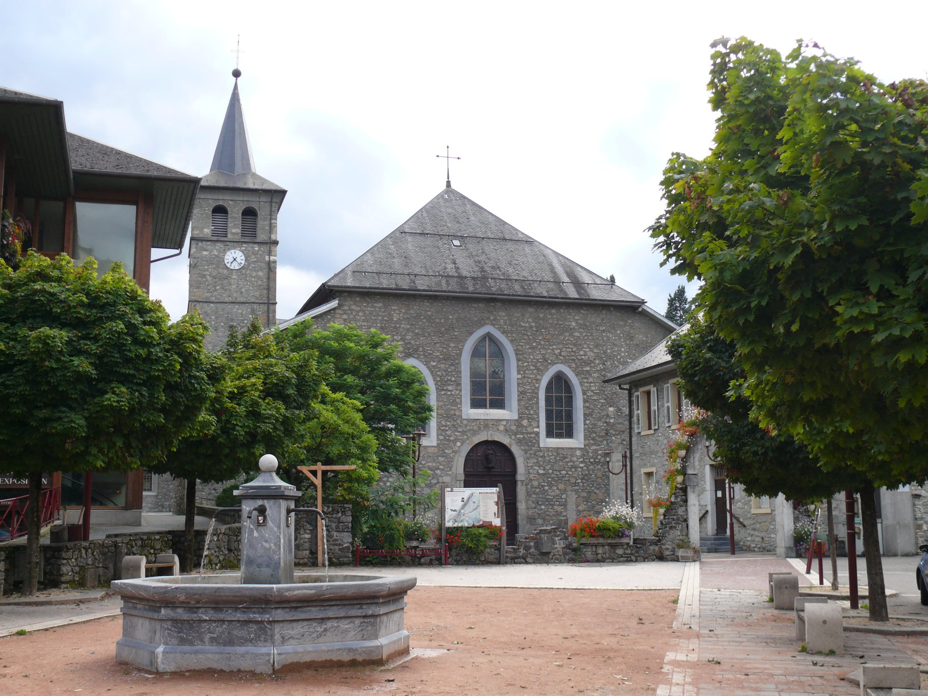 Saint-John-the-Baptist's church of La Rochette (Savoie, Rhône-Alpes, France).